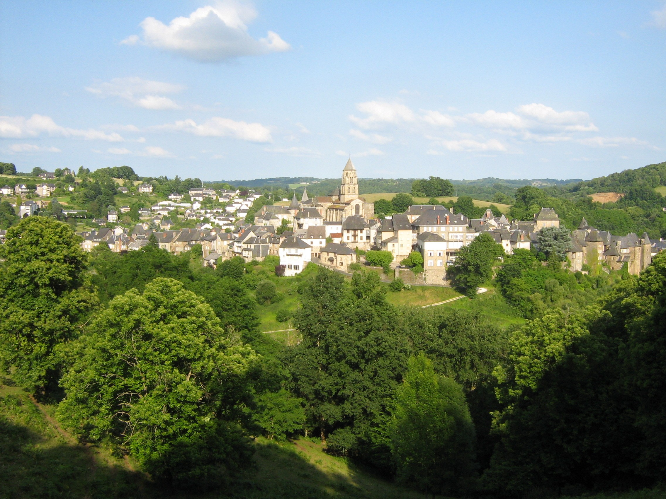 uzerche